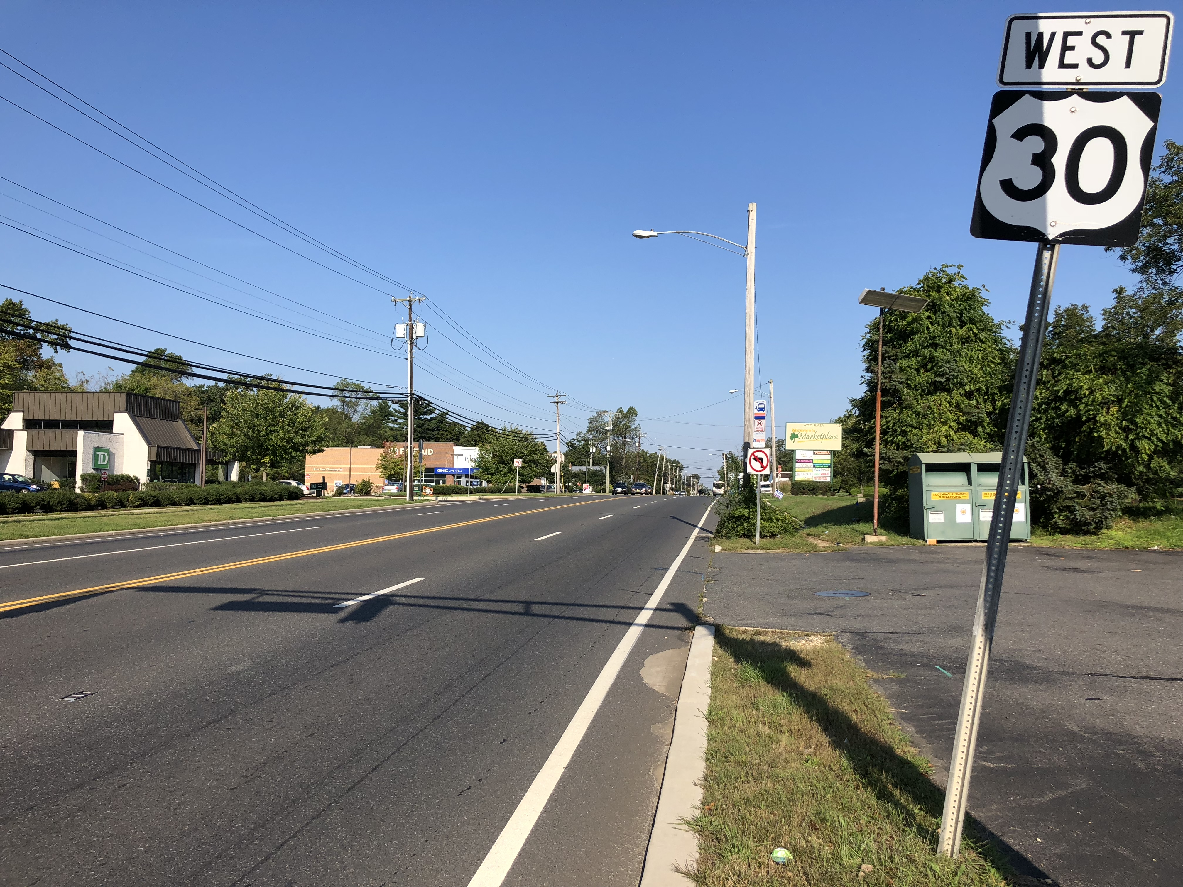 View west along U.S. Route 30 (White Horse Pike) just west of Camden County Route 710 (Atco Avenue) in Waterford Township, Camden County, New Jersey